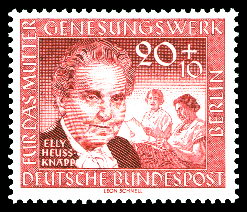 stamp remembering Elly Heuss-Knapp (1881-1952), founder of the Deutsches Müttergenesungswerk and an extra fee for the Müttergenesungswerk